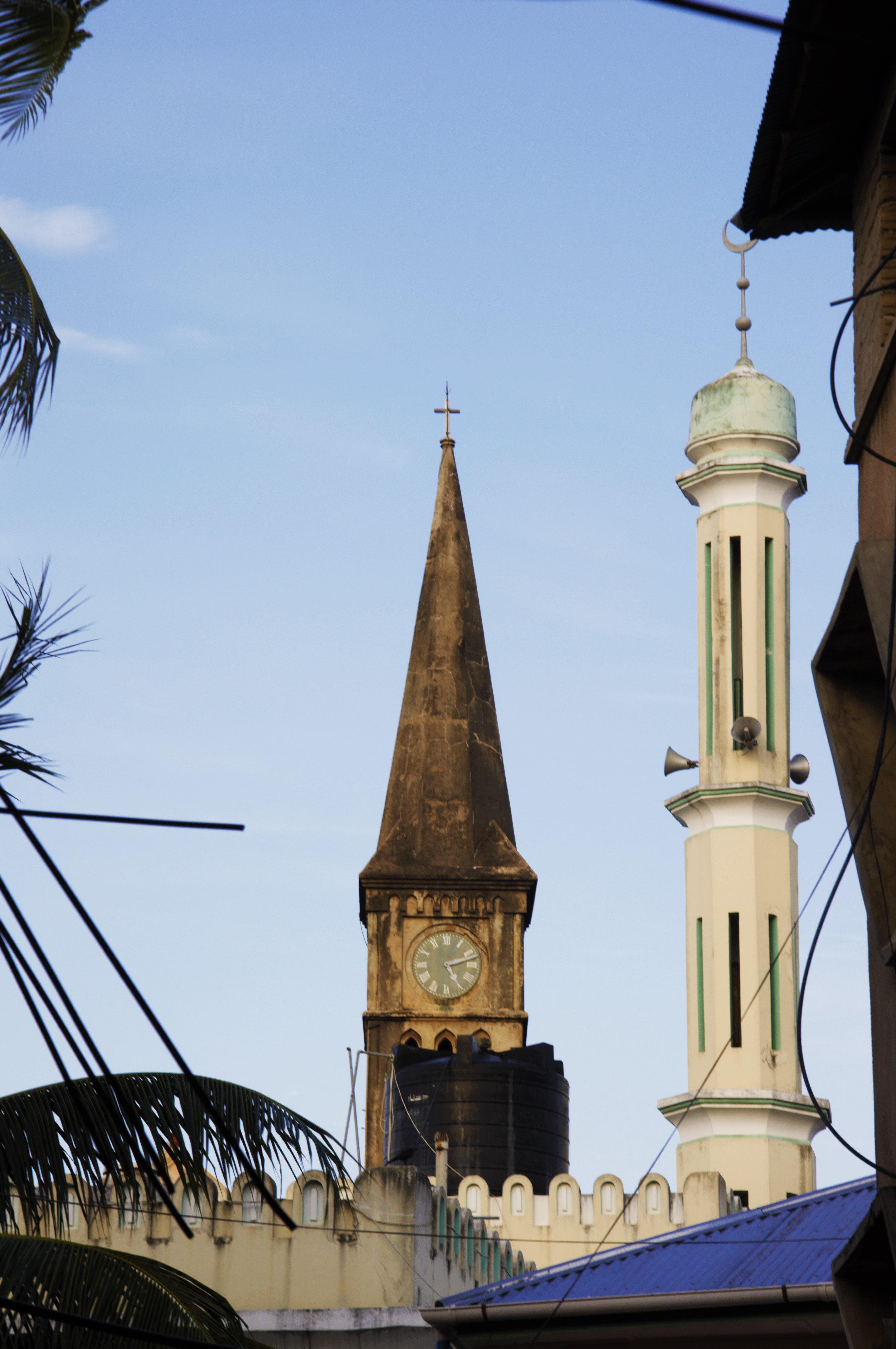 The mosque and church are located closely in the stone city of Zanzibar. This photo has been taken by Prof. Chen Hualin.